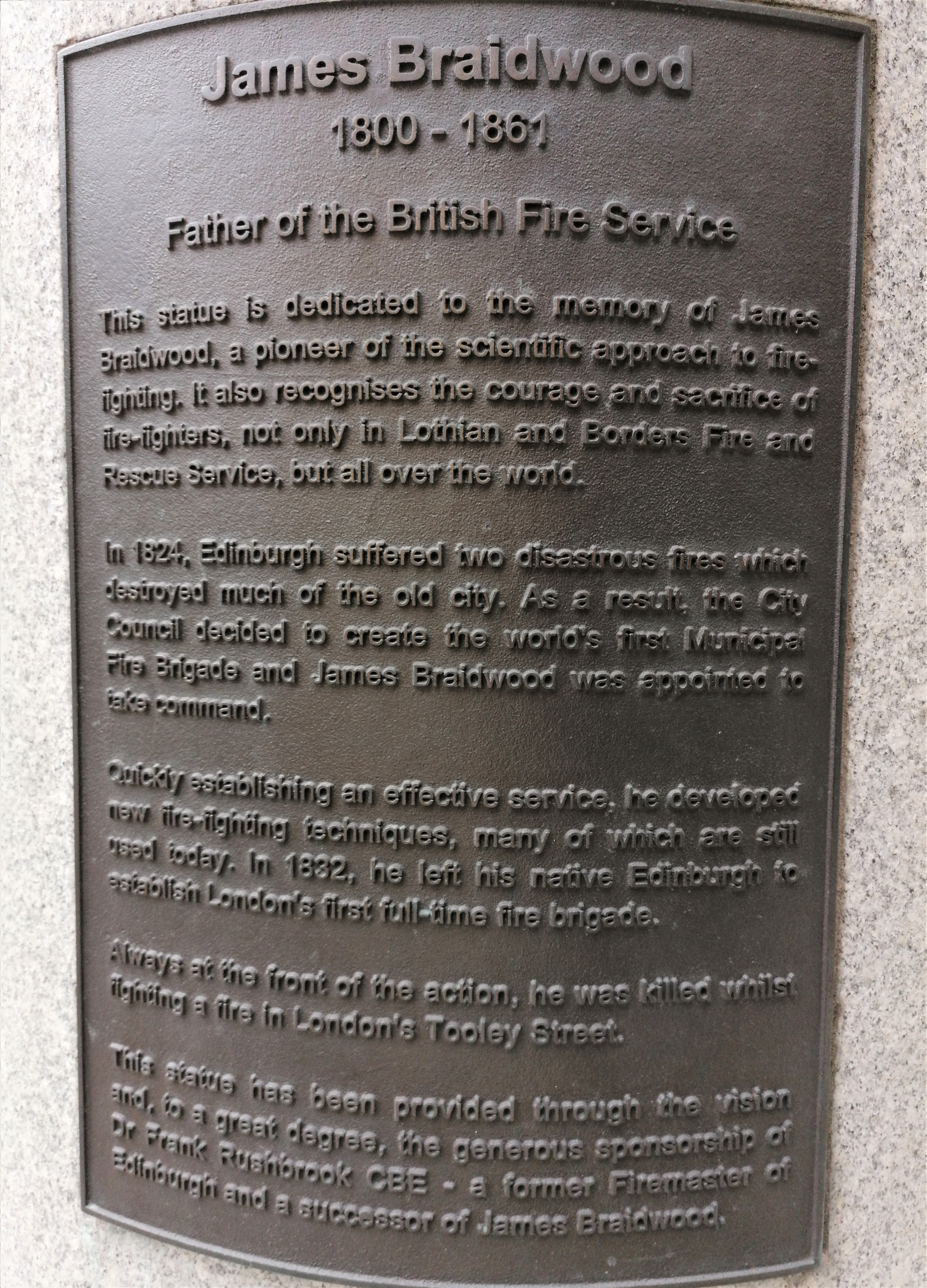 James Braidwood statue - full inscription text on plaque situated on basal column